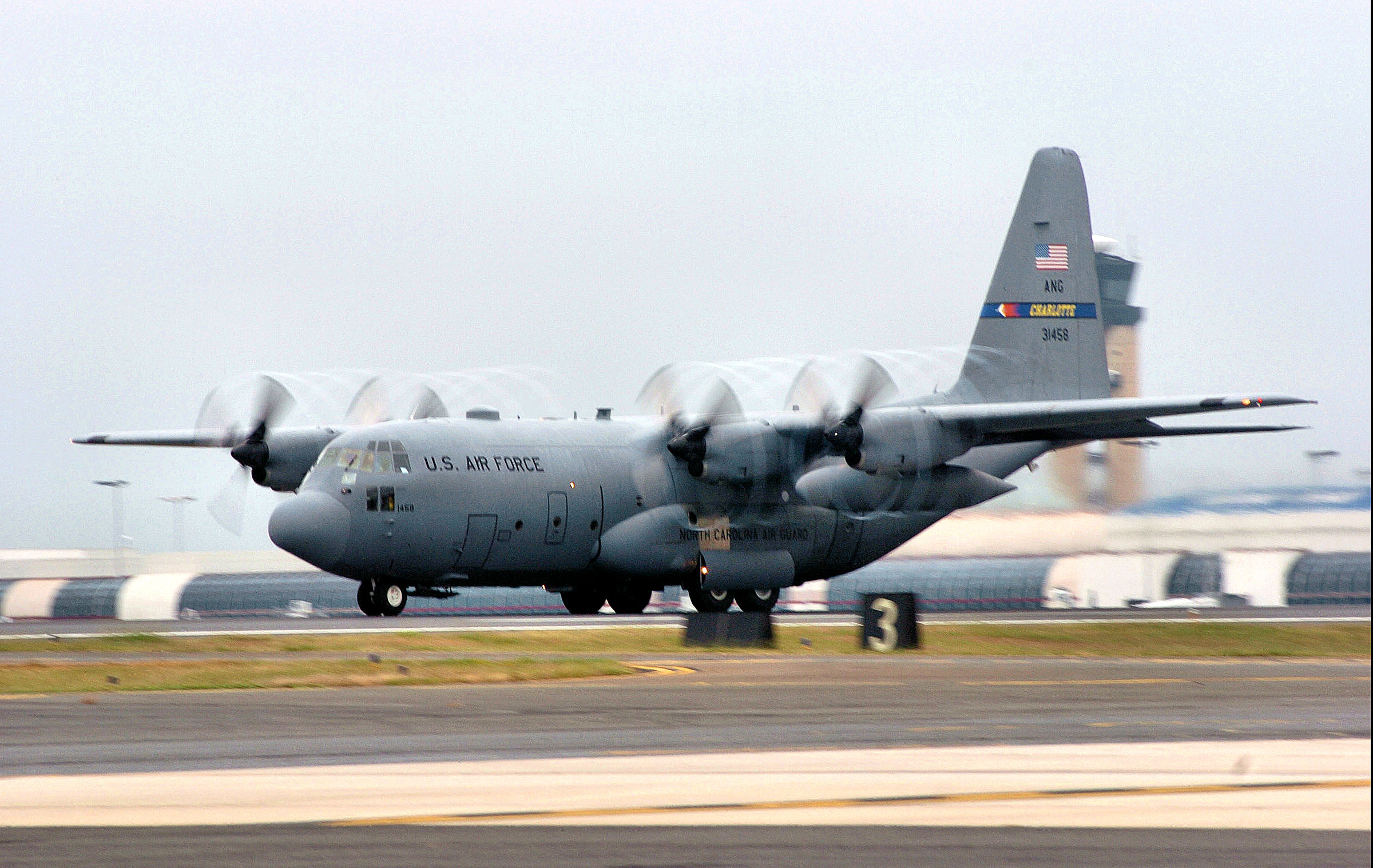 A U.S. Air Force C-130 Hercules aircraft from the 145th Airlift Wing, North Carolina Air National Guard, takes off Oct. 23, 2007, from Charlotte-Douglas International Airport, N.C. The North Carolina Air National Guard has deployed three C-130s, flight crews and support personnel to Port Hueneme/Channel Islands, Calif., to assist the U.S. Forest Service in firefighting efforts to contain, control and extinguish wild fires. The aircraft will utilize the Modular Airborne Fire Fighting System, which is a fire fighting apparatus that is loaded into the aircraft's cargo area and consists of a series of pressurized tanks that hold 3,000 gallons of flame-retardant liquid called Phos-Chek.